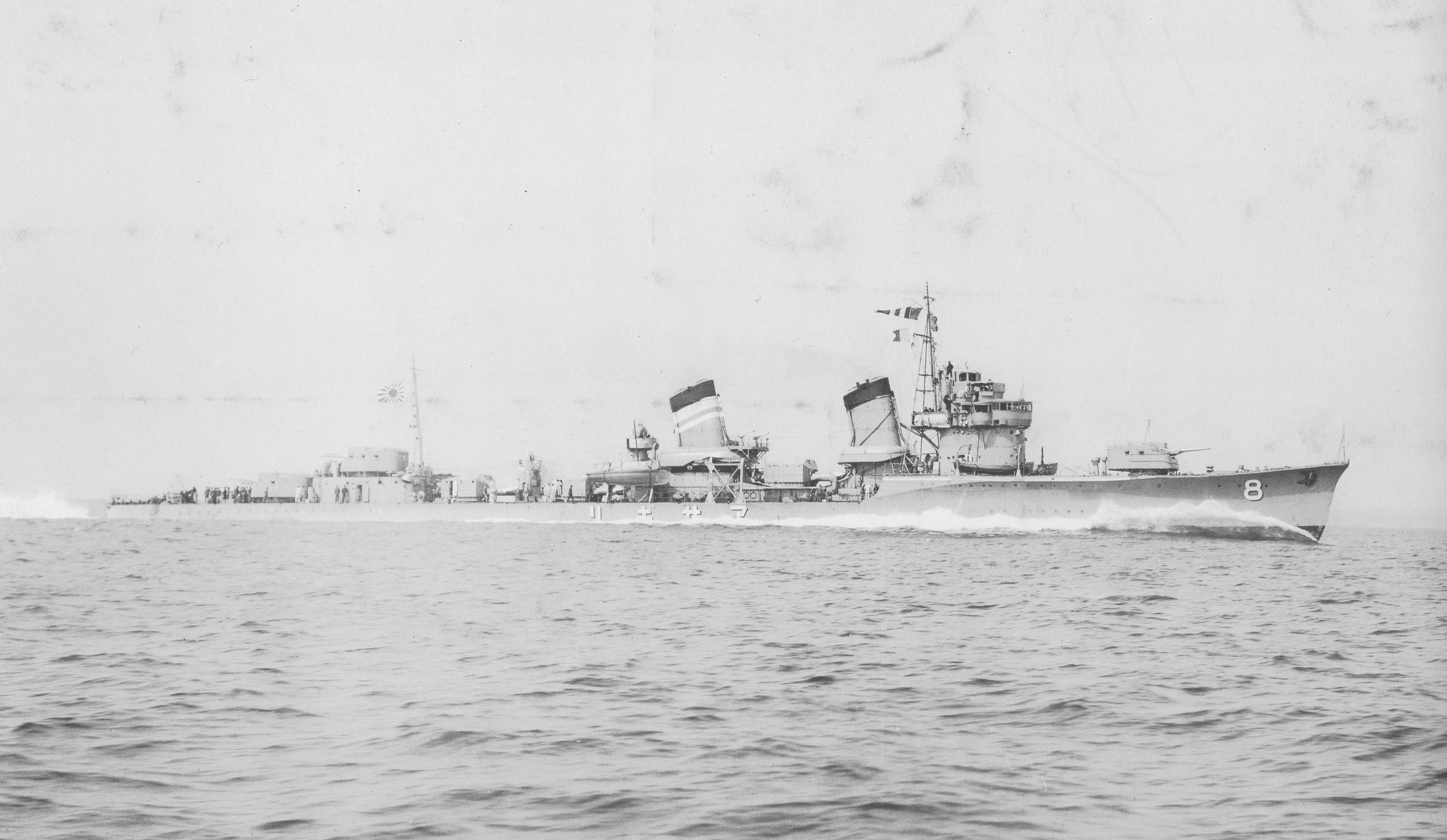 Imperial Japanese Navy destroyer Asagiri, the second Japanese warship to bear that name